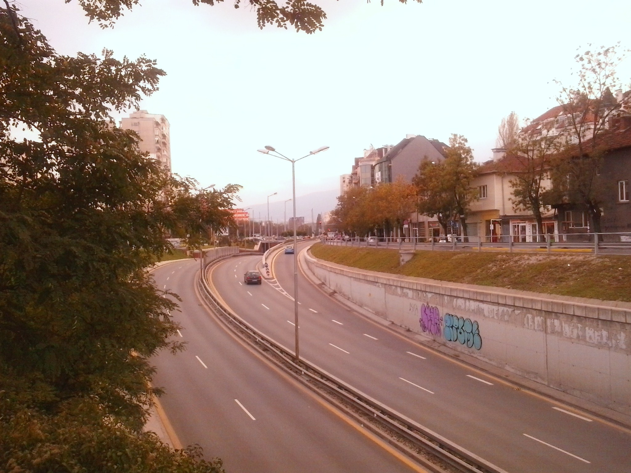 Boulevard Ivan Evstratiev Geshov in Sofia, Bulgaria